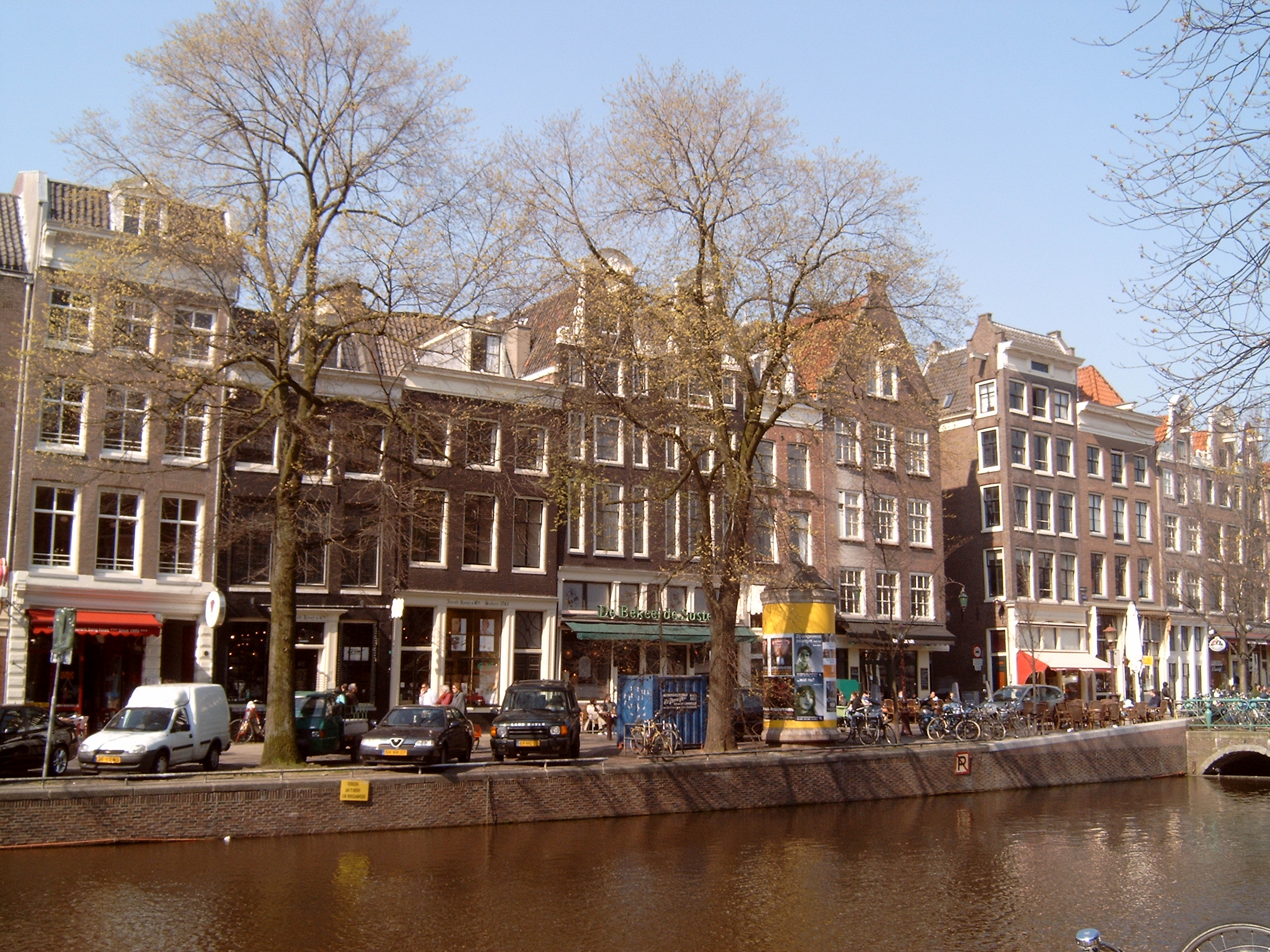 Amsterdam, Kloveniersburgwal 2-14